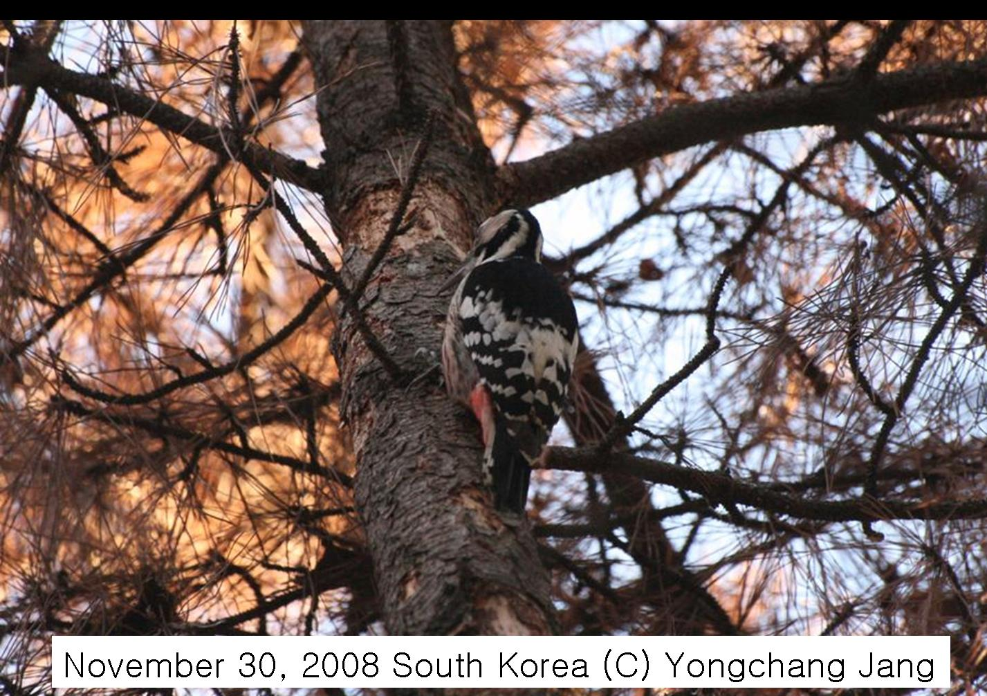 White-backed Woodpecker, Observed in Towol Park, Changwon City, South Korea